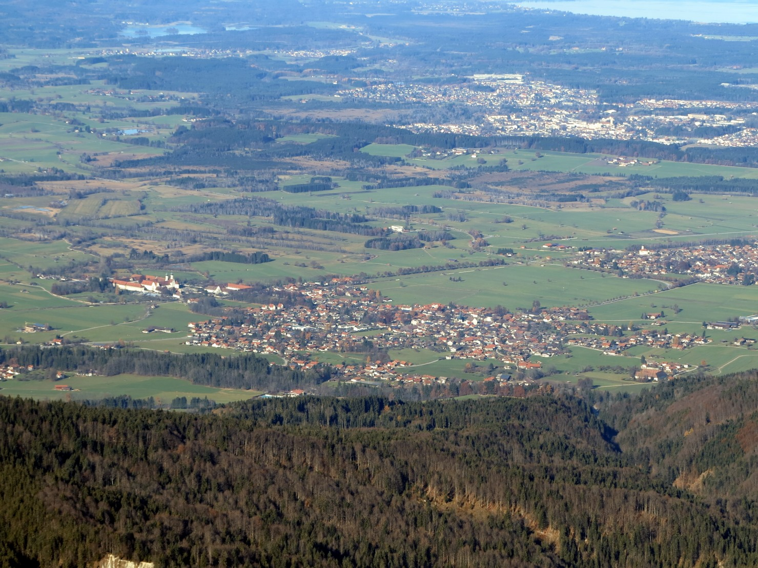 Mountain Benediktenwand, View to Monastery of Benediktbeuern